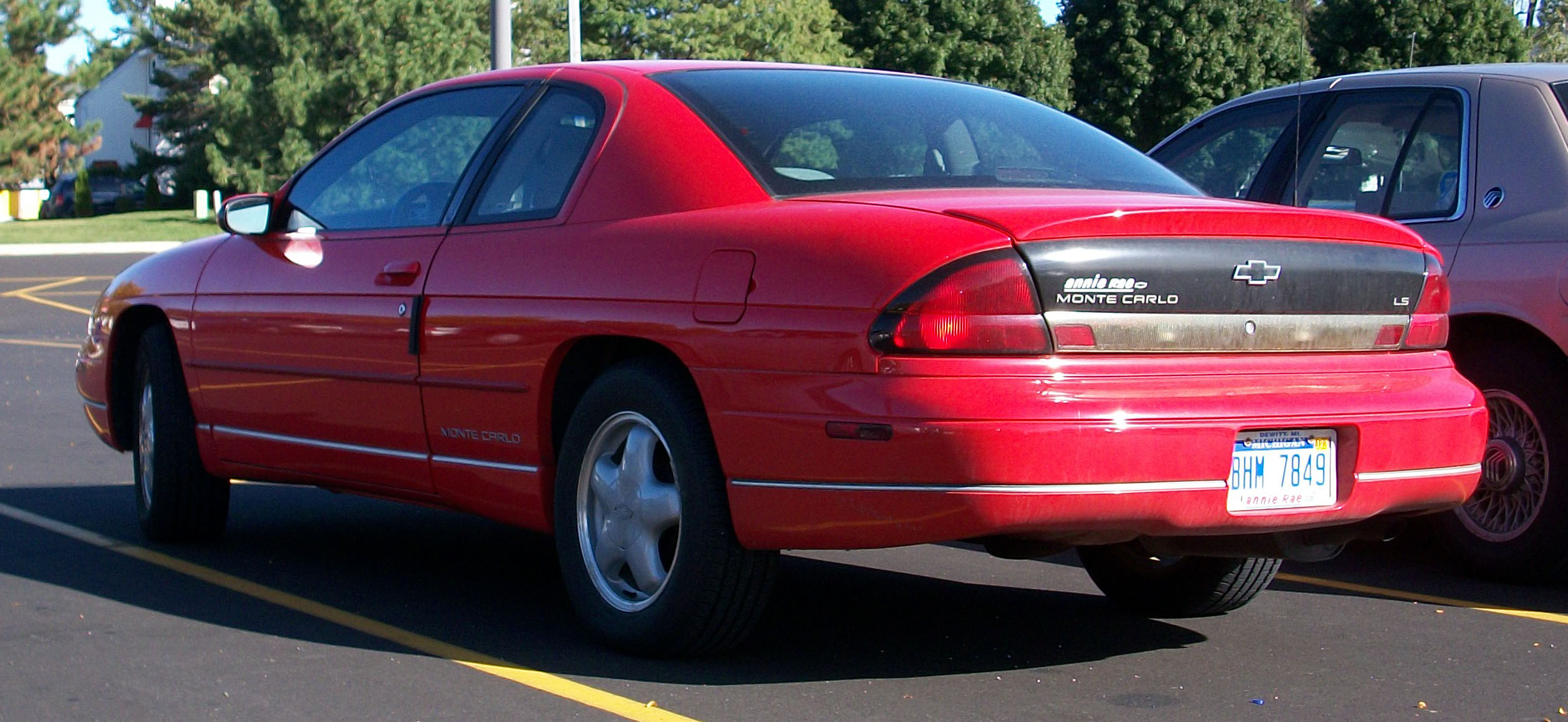 1995-1999 Chevrolet Monte Carlo LS photographed in Lansing, Michigan.